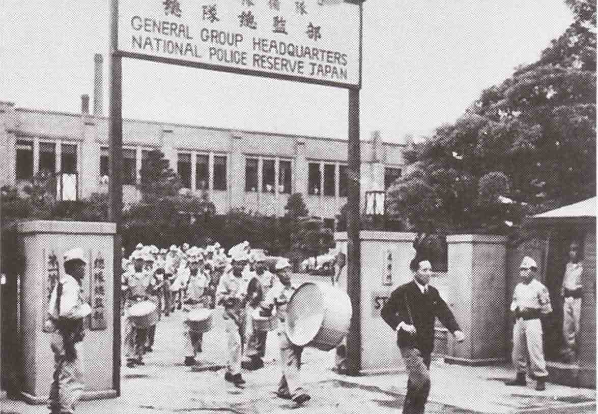 Marching from the Gate of General Group Headquarters, National Police Reserve Japan in Camp Etchūjima, Tokyo.